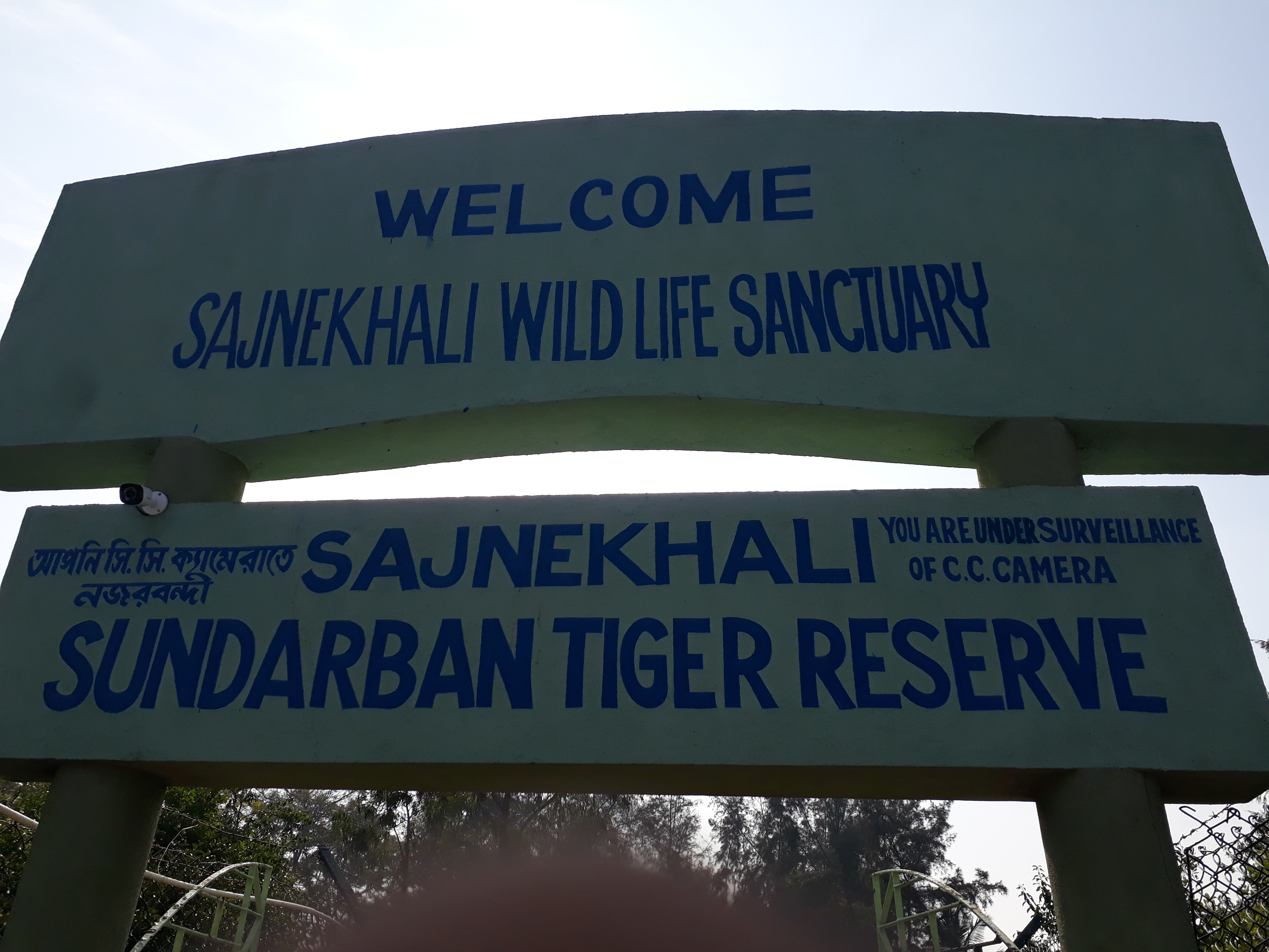 Sajnekhali wildlife sanctuary and others part of Sundarbans in West Bengal